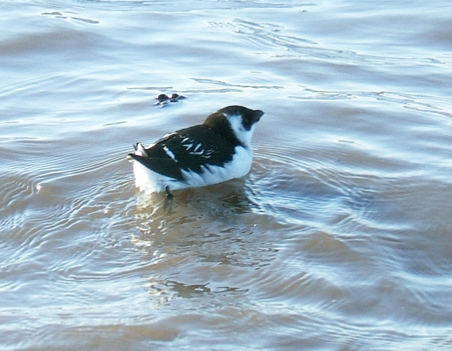 Alle alle (Little Auk), winter plumage. Newbiggin, Northumberland, UK. Displaced south of usual wintering range by strong northerly gale on 2006-11-01